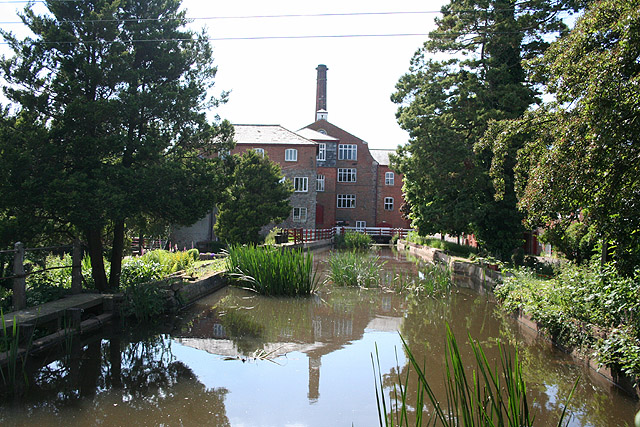 Uffculme: Coldharbour Mill The leat leading to the 200-year old spinning mill. The large waterwheel has been restored and can be seen turning during open days: the mill became a working museum in 1982. There is also a collection of steam engines, spinning frames and power looms.